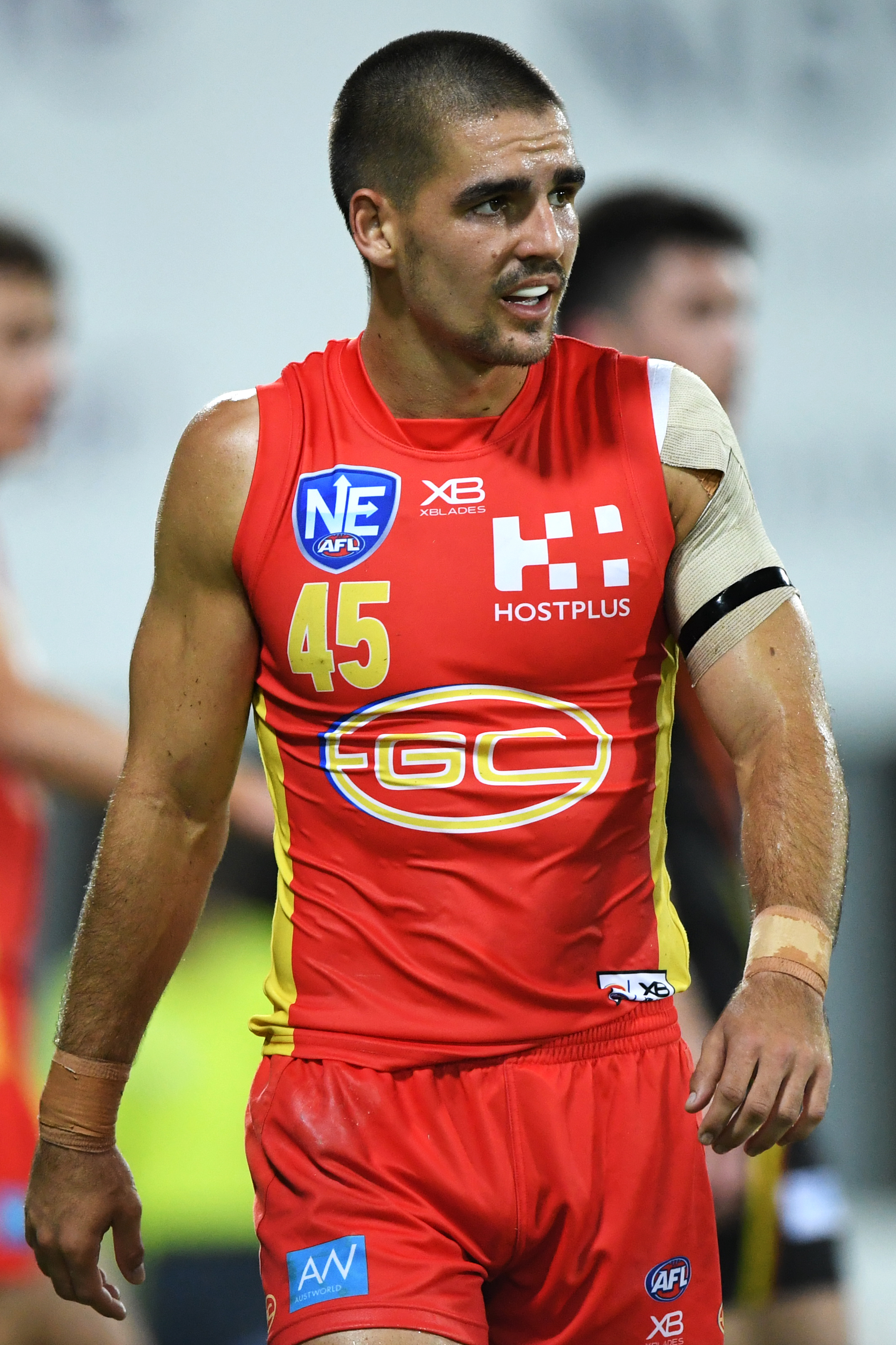 Jacob Dawson of Gold Coast during the 2019 NEAFL round 5 match between NT Thunder and Gold Coast at TIO Stadium on Saturday, 4 May 2019 in Darwin, Australia.